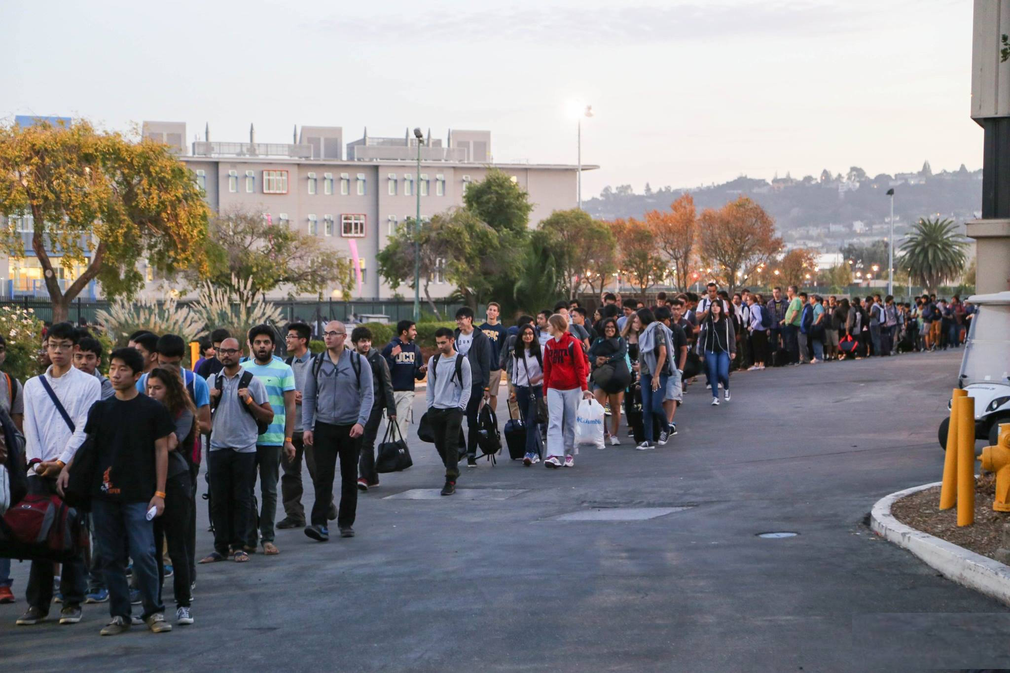 Lining up to get in at the HackingEDU Hackathon 2015